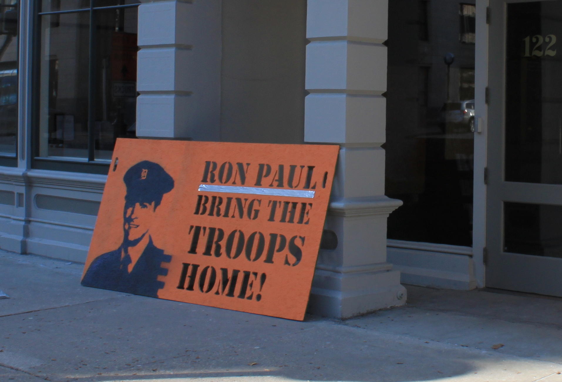 A sign supporting Ron Paul on the day of the Michigan presidential primary, Goodyear Building, 122 South Main Street, Ann Arbor, Michigan.